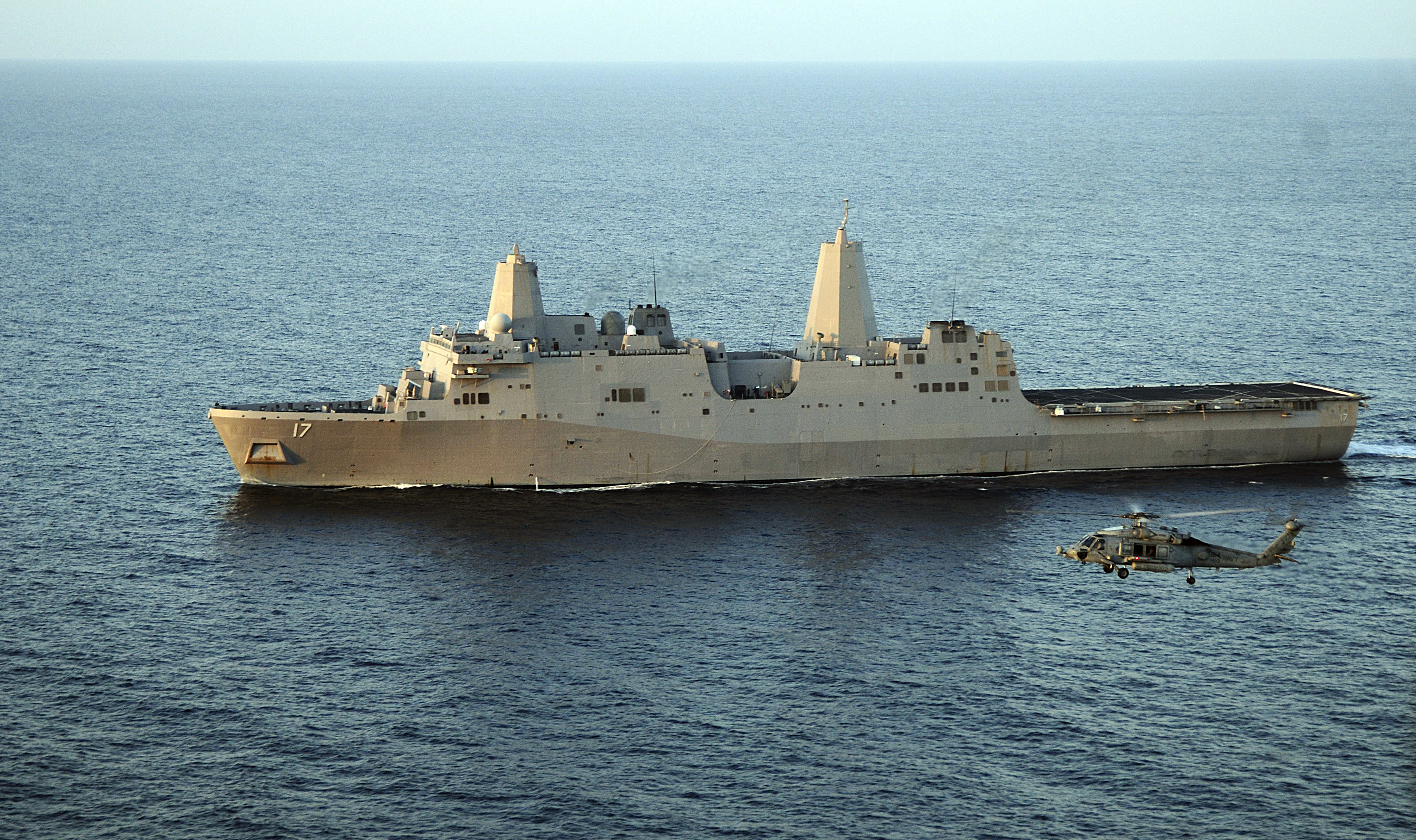 090112-N-7918H-499 GULF OF ADEN (Jan. 12, 2009) The amphibious transport dock ship USS San Antonio (LPD-17) transits the Gulf of Aden. San Antonio is the command ship for Combined Task Force (CTF) 151, which conducts counter-piracy operations in and around the Gulf of Aden, Arabian Sea, Indian Ocean and the Red Sea and was established to create a lawful maritime order and develop security in the maritime environment. (U.S. Navy photo by Mass Communication Specialist 3rd Class John K. Hamilton/Released)